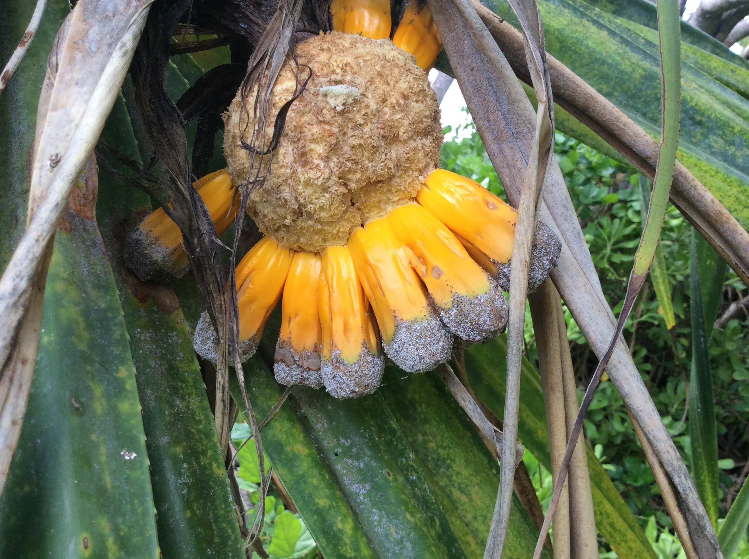 Ripe hala tree (Pandanus tectorius) fruit, Hawaii, US